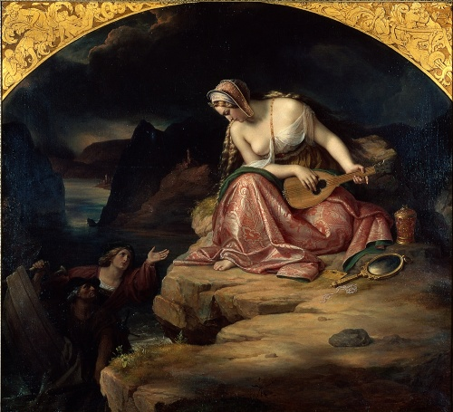 Lurelei